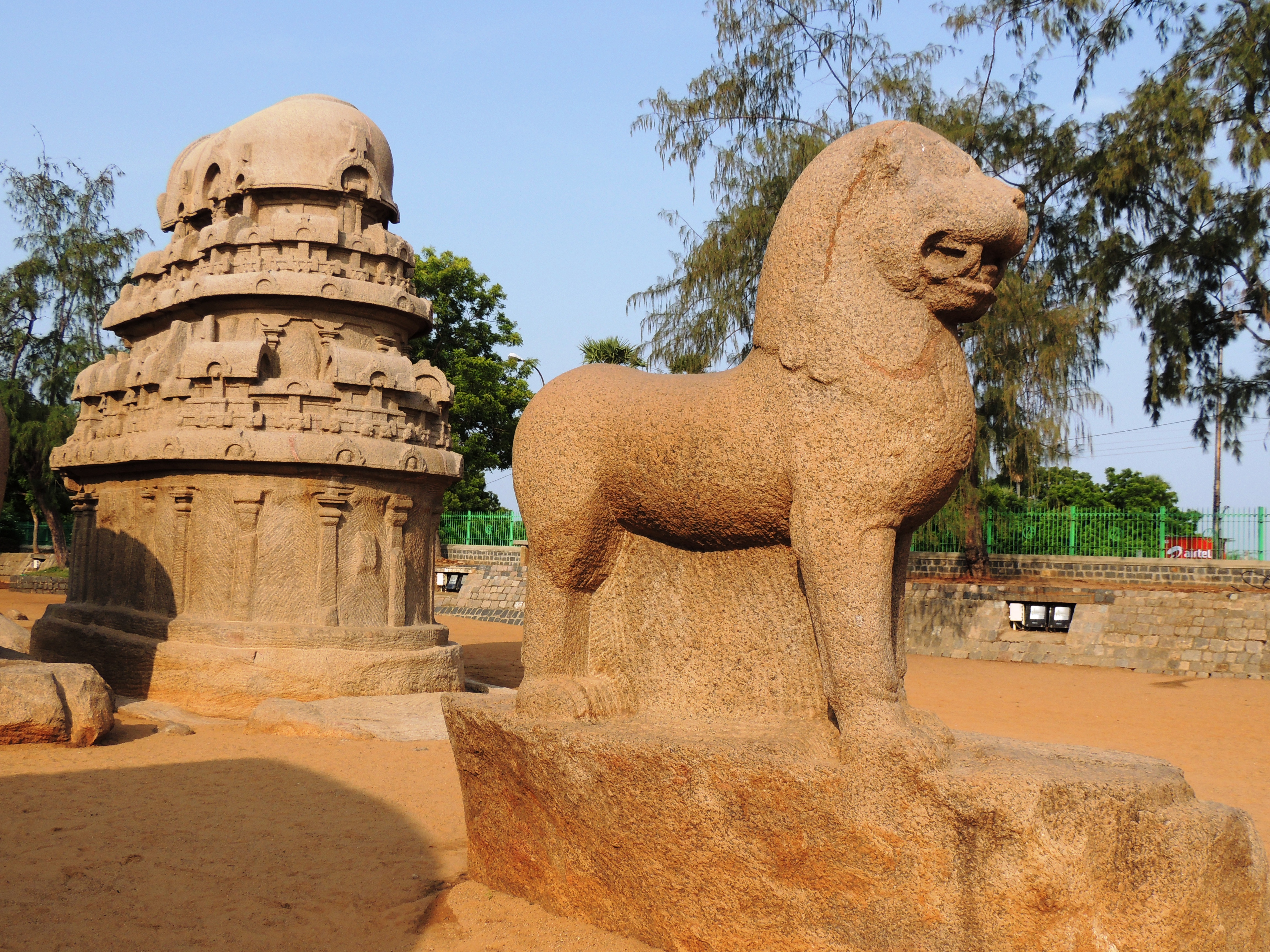 Draupathi Ratha